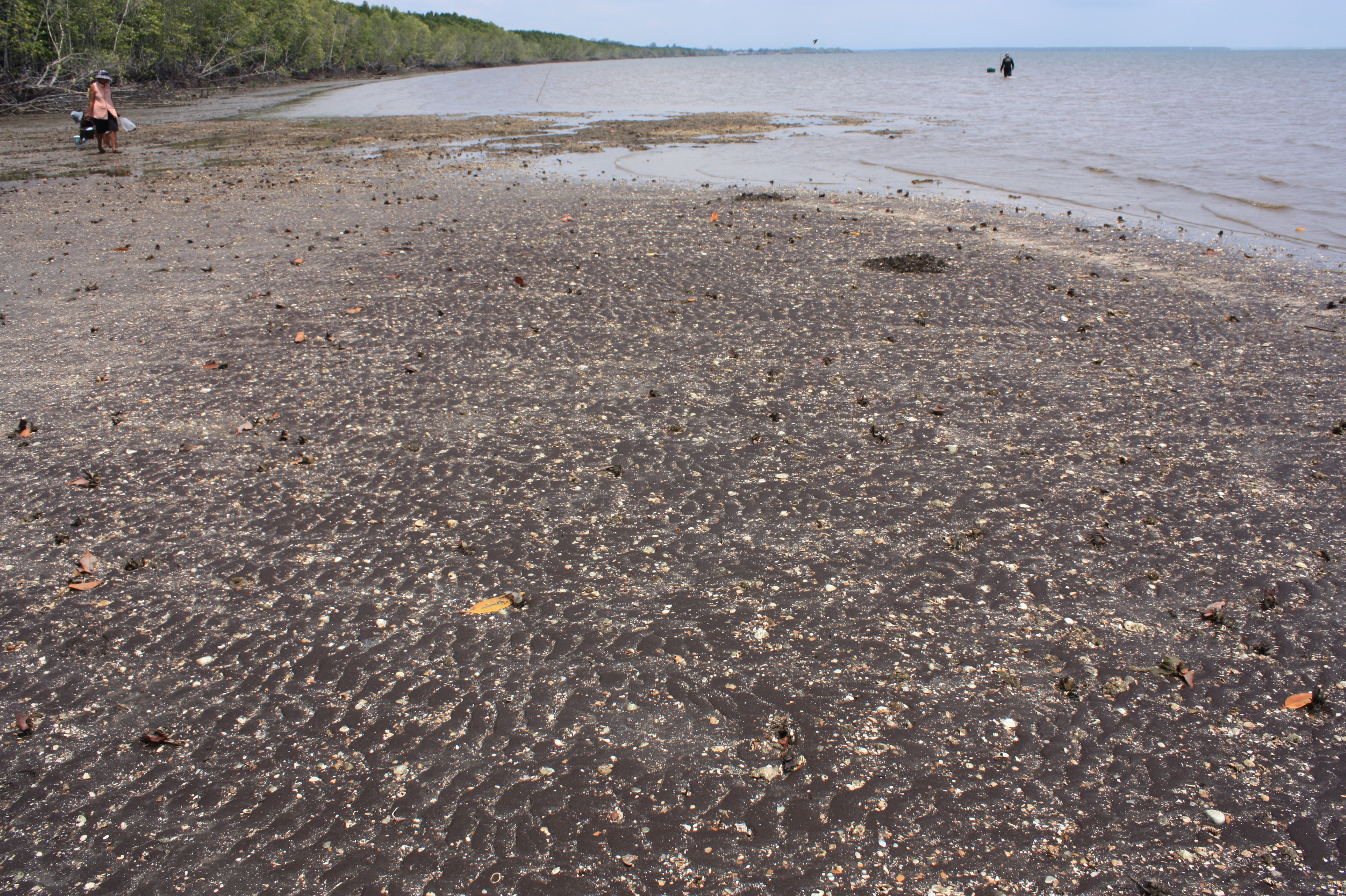 A black sand beach on the east coast of Laem Ngob district, Trat province, Thailand